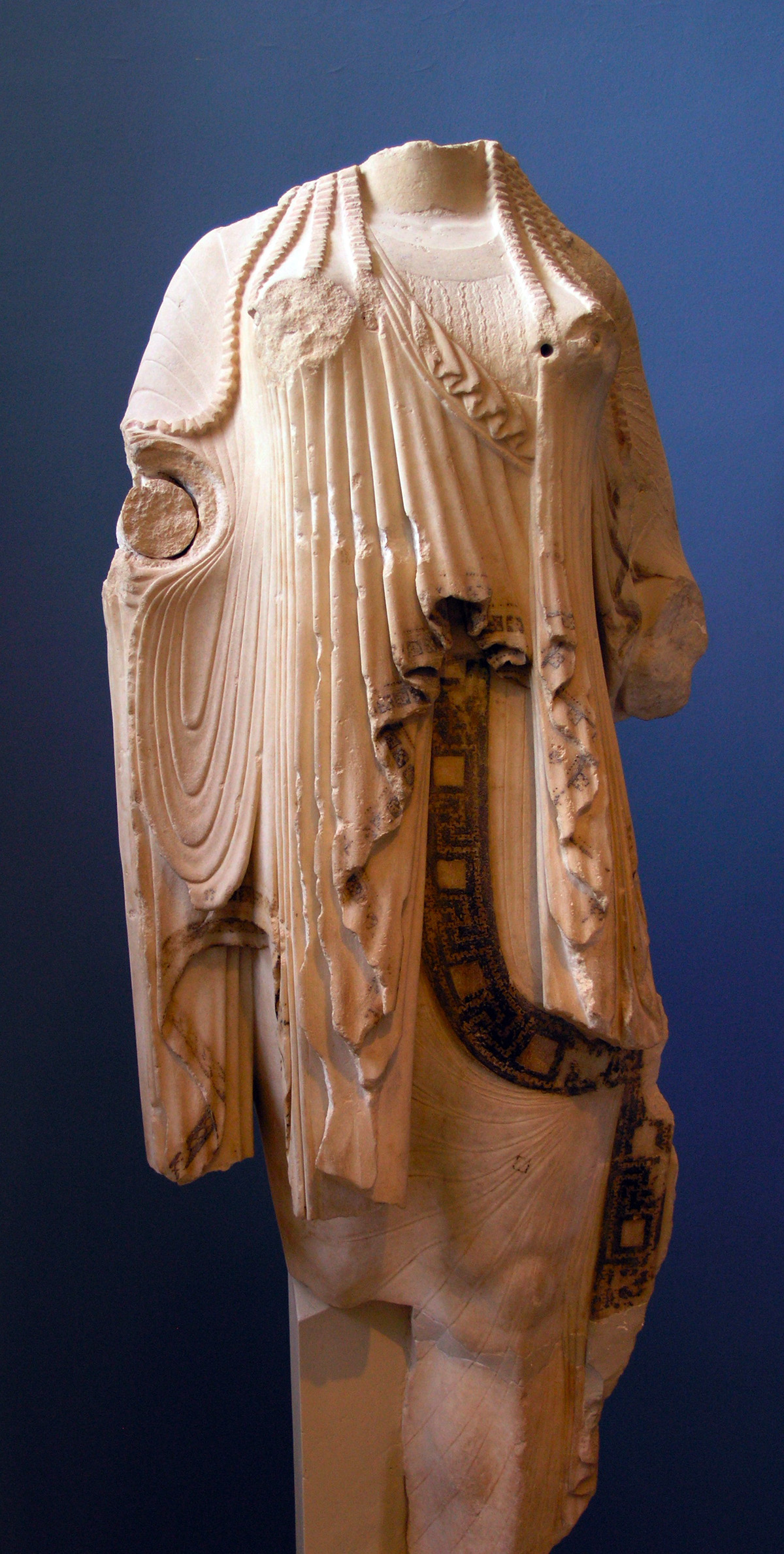 Kore in marble from Paros. End of the 6th c. BC.